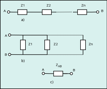 Asociaciones de impedancias (Associations of impedances)